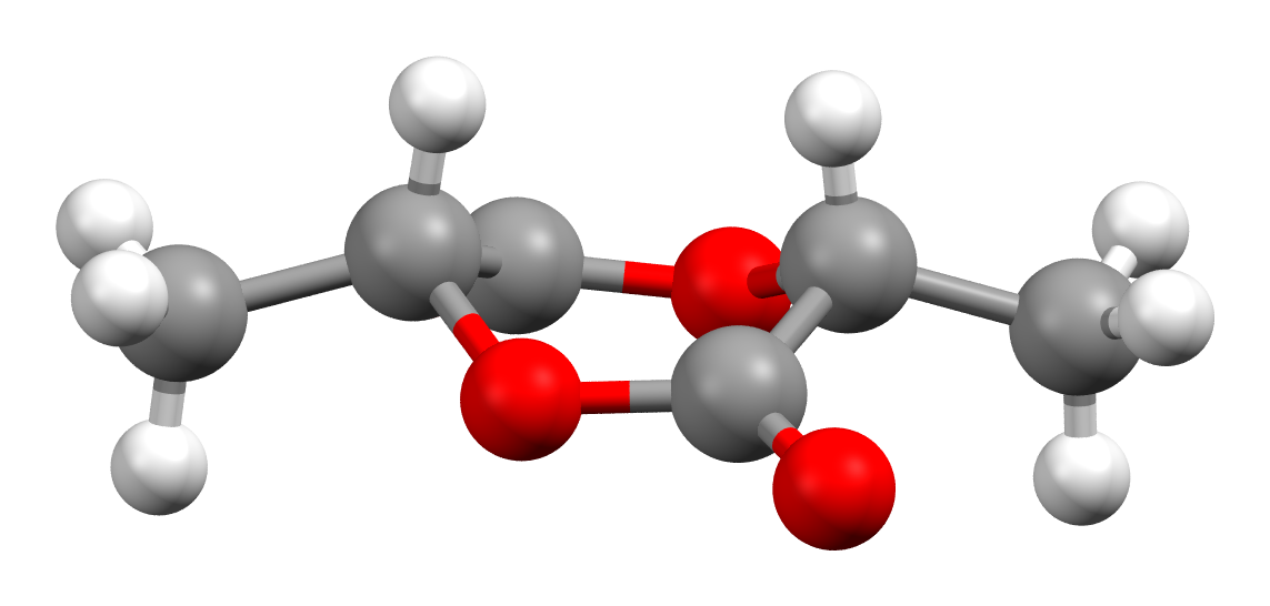 Crystal structure of R,R-lactide. (1982). "Structure of 3,6-dimethyl-1,4-dioxane-2,5-dione [D-,D-(L-,L-)lactide]". Acta Crys. B38 (5): 1679.